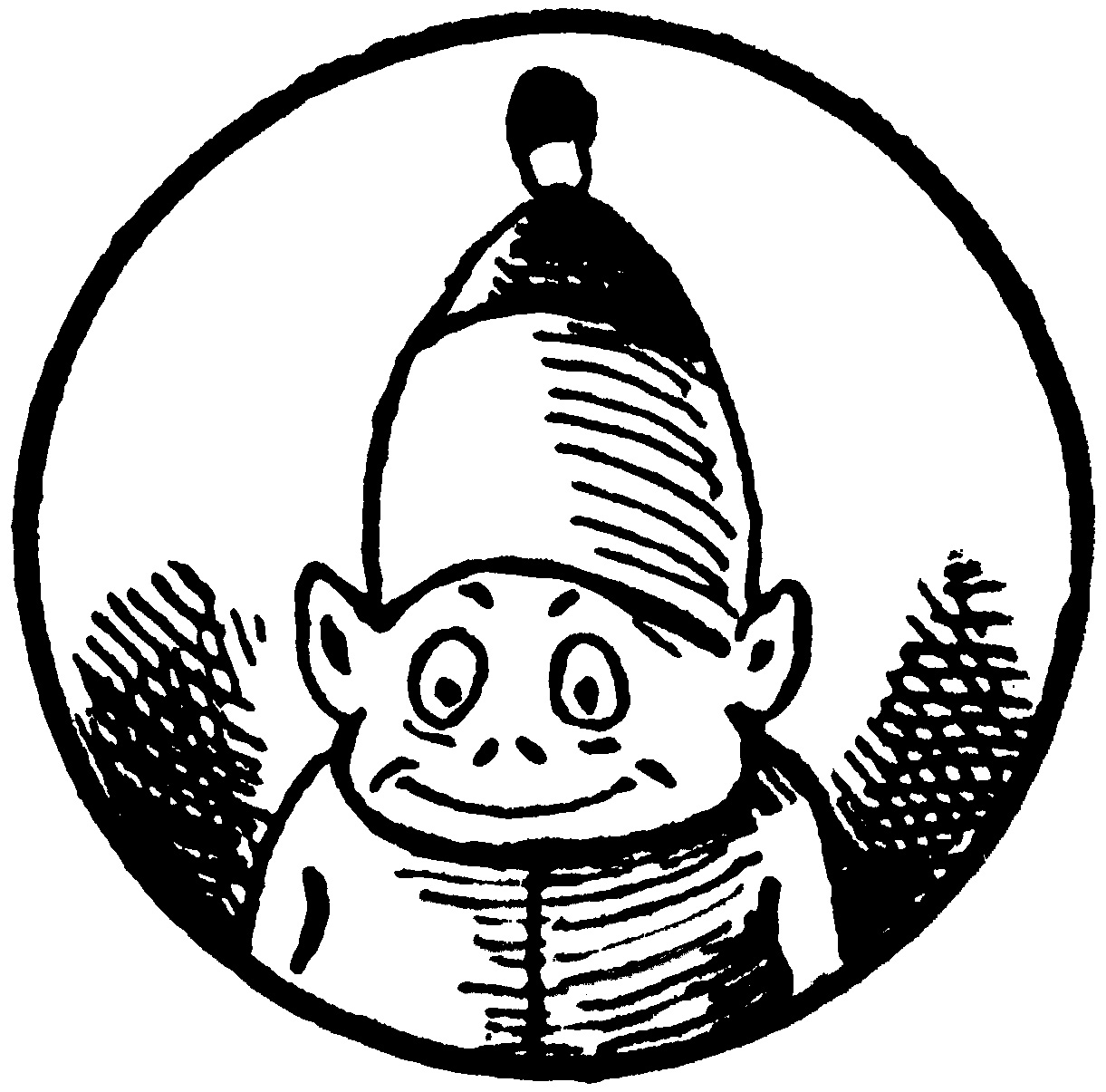 1.3 mm pen and ink illustration